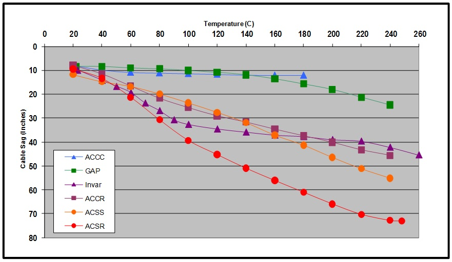 Overhead power line conductor sag comparison, Test Data: temperature vs. sag of various conductor types on a 215' test span; see ACCC conductor